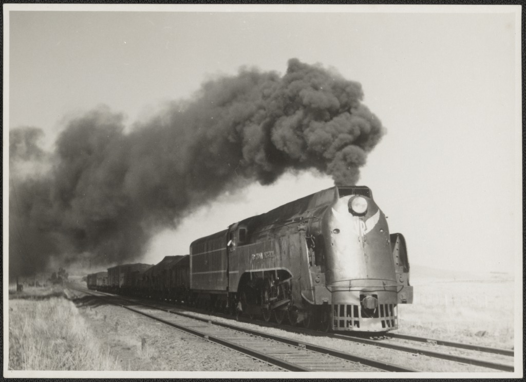 Part of collection: Buckland collection of railway transport photographs.; Title from handwritten list.; Also available in an electronic version via the Internet at: .au/nla.pic-vn4367649. Persistent URL .au/nla.pic-vn4367649